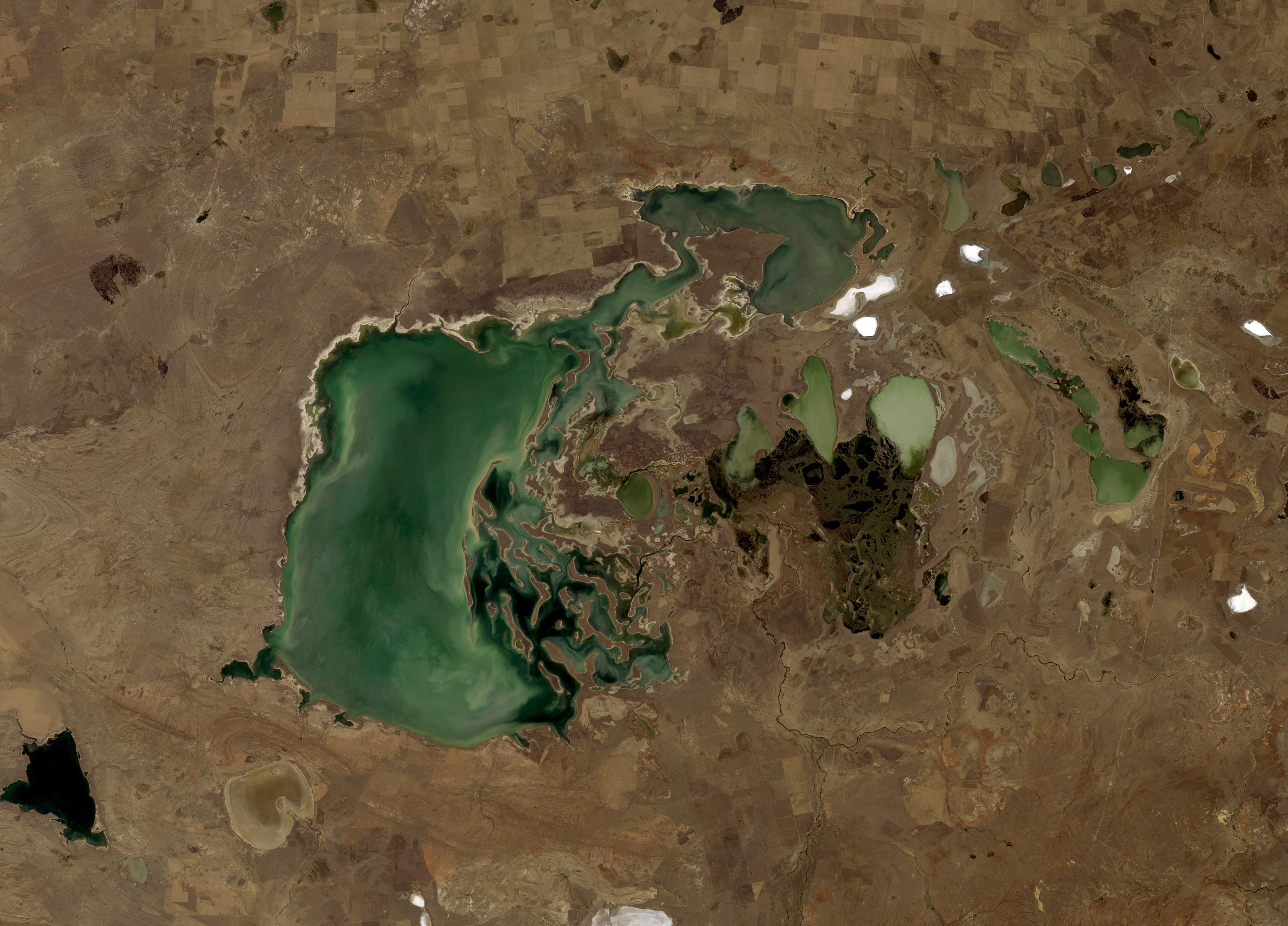 Tengiz lake, Kazakhstan, near natural colors satellite image LandSat-5, 1998-09-15